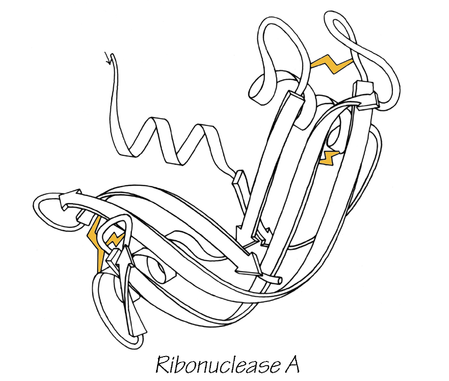 Ribbon drawing of ribonuclease A with the 4 disulfide bonds highlighted in gold. Beta strands are arrows and alpha-helices are spirals. Hand-drawn by Jane Richardson, 1980.